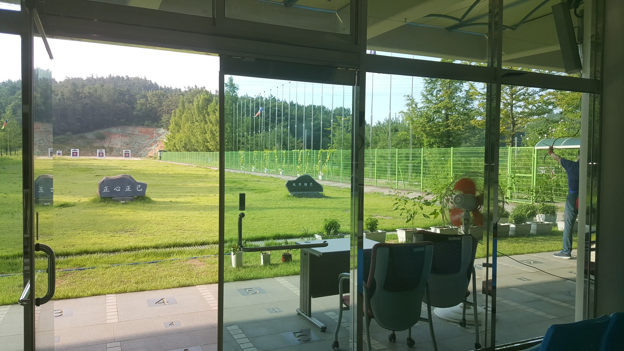 A field of Gukgung, Korean Archery, from inside of a archery house